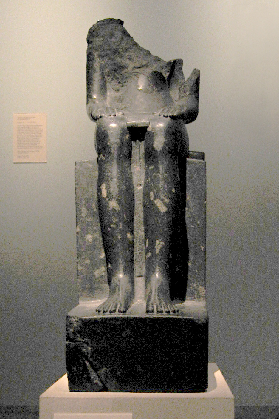 Small seated statue of Hatshepsut, Eighteenth dynasty of Egypt, c. 1503-1482 B.C., found at Deir el-Bahri, Thebes. Black granite sculpture at the Metropolitan Museum of Art, New York City. The small figure, which bears the royal nemes headdress and shendyt worn by male Egyptian kings, was likely placed in a niche in Hatshepsut's funerary temple. It was possibly one of a pair of statues, as fragments of a similar statue have been found.